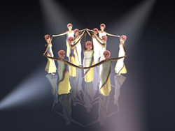 dancing people, 3D-picture